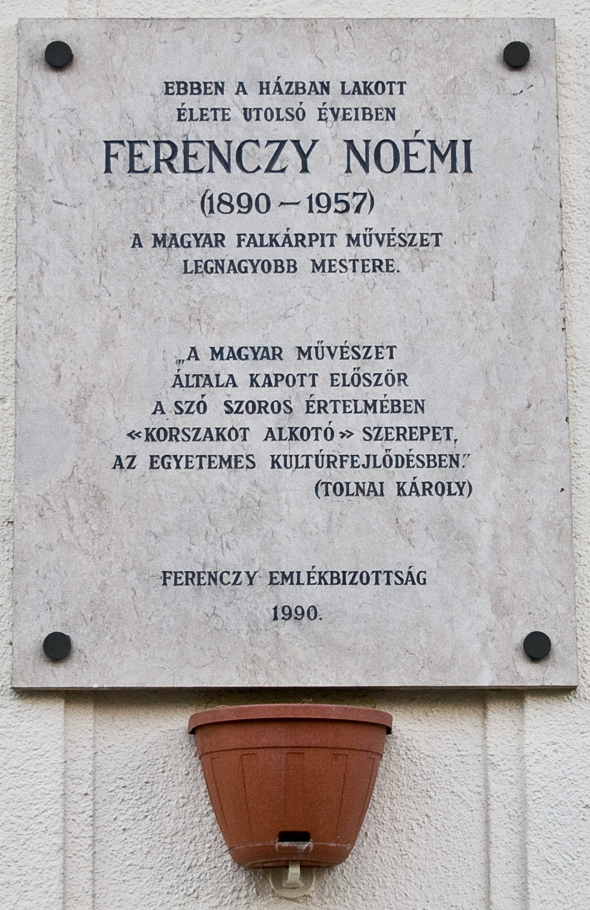 Commemorative plaque of Noémi Ferenczy. Budapest District V, Falk Miksa Street No 18-20